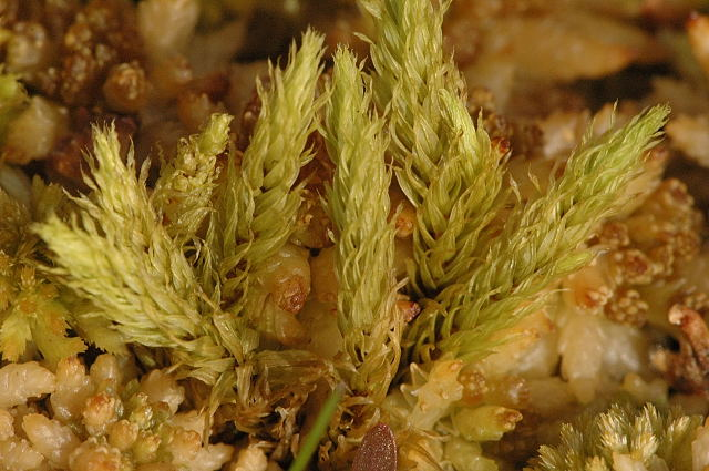 Picture taken in Commanster, Belgian High Ardennes . Species: Aulacomnium palustre